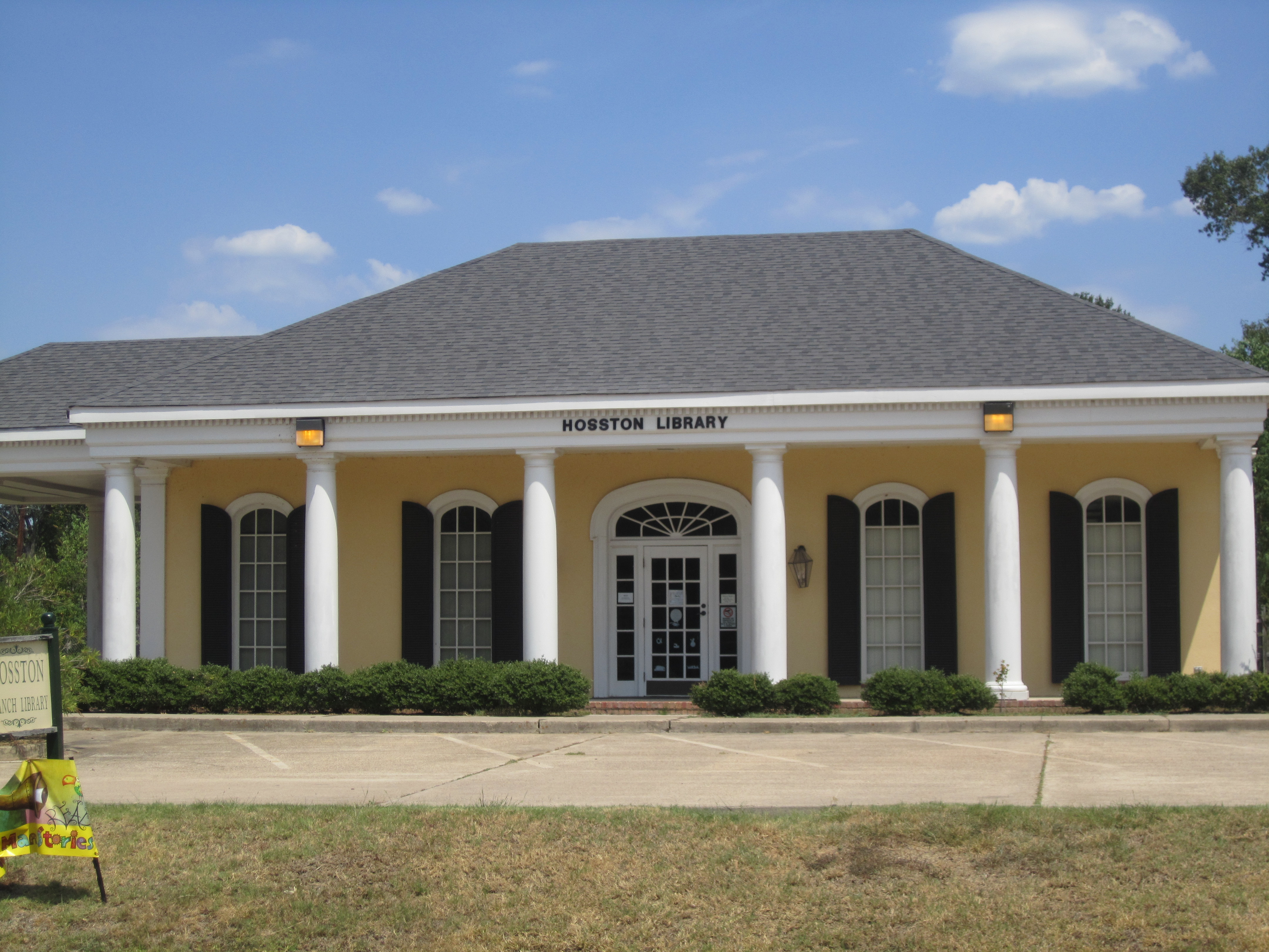 I took photo of Hosston Library in Hosston, LA, with Canon camera.